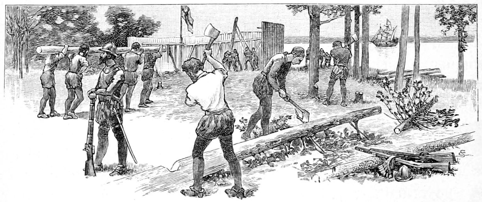 Illustration captioned "Building the Fort at Jamestown" from the 1910 edition of The Leading Facts of American History